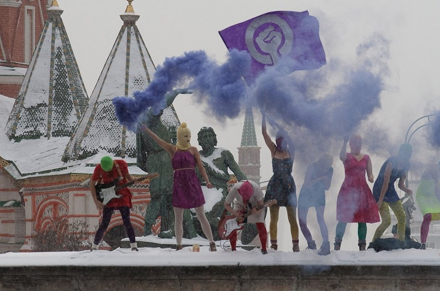 Pussy Riot at Lobnoye Mesto on Red Square in Moscow - Denis Bochkarev